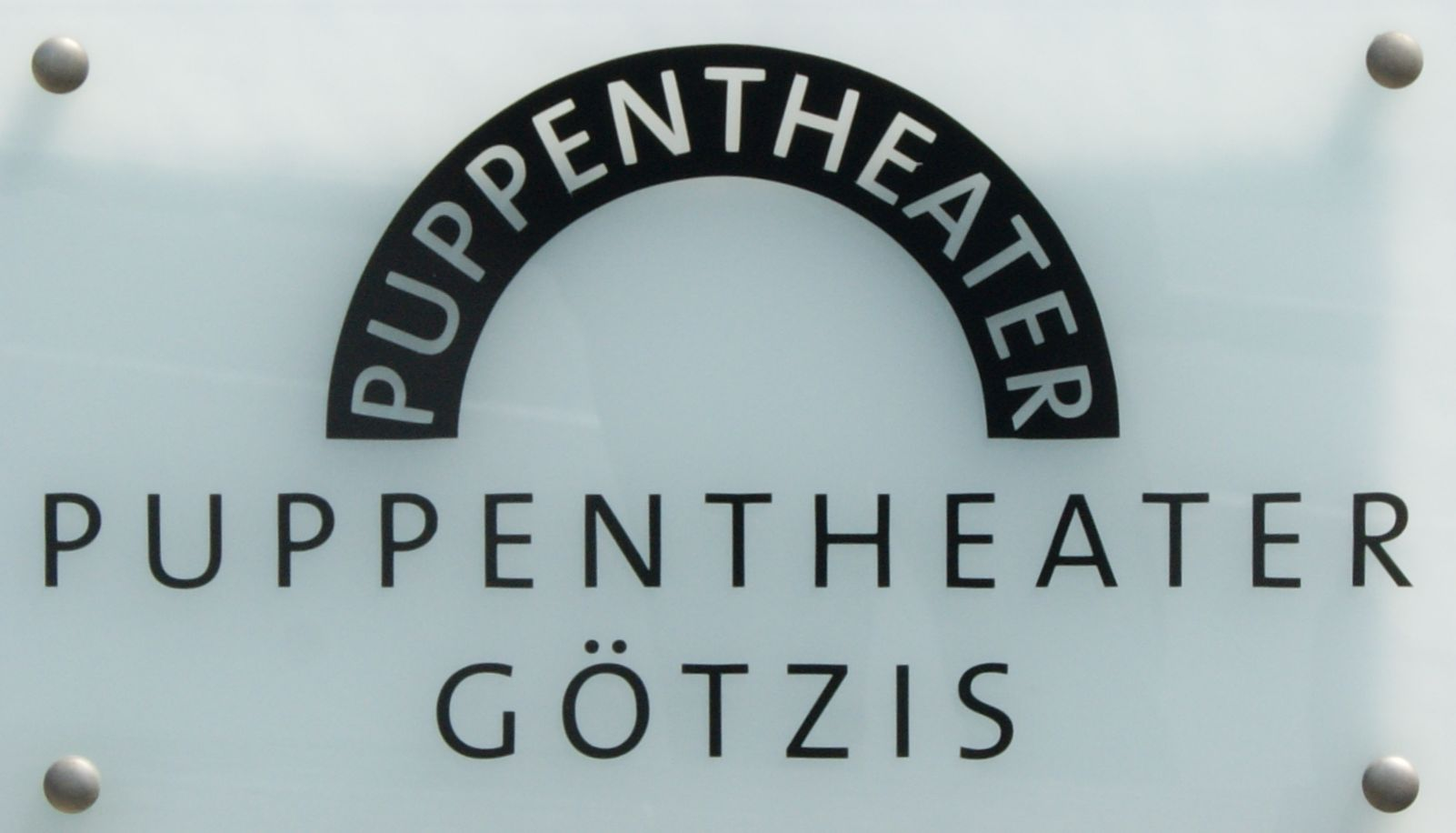 Part of the building complex "Kulturbühne AMBACH" (meaning: Culture Stage near the rivulet) in Götzis, Vorarlberg, Austria.